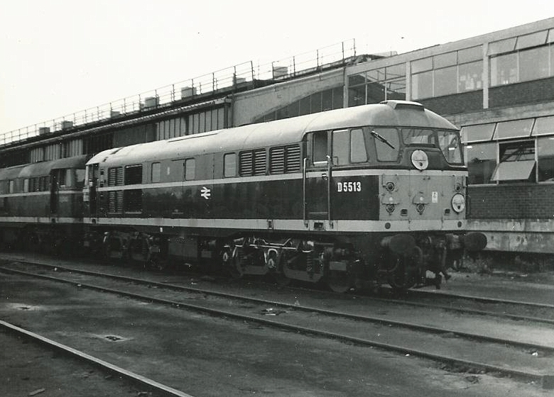 Brush Type 2 (later Class 30), Pilot Scheme batch, 1,250 hp A1A-A1A No.D5513 (later 31 013) without headcode box in a very much interim livery of BR green livery with light grey stripes but with the new BR double arrow logo and all-yellow front end normally associated with blue examples at Stratford MPD, 07/67. Unlike their production sisters, the Pilot Scheme batch never had any trouble with their Mirlees engines and were thus the last to be refitted with English Electric engines (and reclassified 31/0) in 1969. No Class 30's ever got their new TOPS numbers in the 30 series. Scanned photograph taken with a Kowa SET camera.